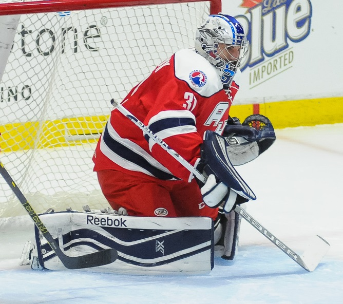 Connor Hellebuyck at the 2015 AHL All-Star Game.